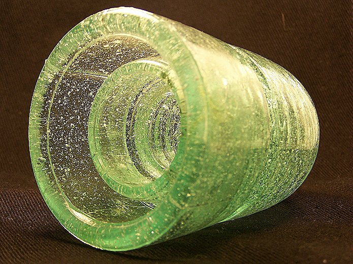 The same snowy CREB 145 sitting on its side Author:Lee BrewerSource:I took this picture of my own possession and release it to the public domain for any use.